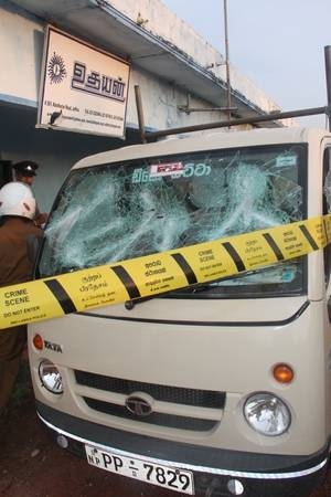 Unidentified men attacked the Uthayan newspaper office in Kilinochchi leaving behind a manager seriously injured and office equipment and vehicles damaged in the early morning hours of 3rd April, 2013. At least seven persons armed with club including wickets attacked the staff.[1]It is alleged the attackers are a squad operated by the Sri Lankan military intelligence since the office, is situated on Karadippoakku Junction on A9 Road, heavily guarded by the Sri Lankan military.[2]